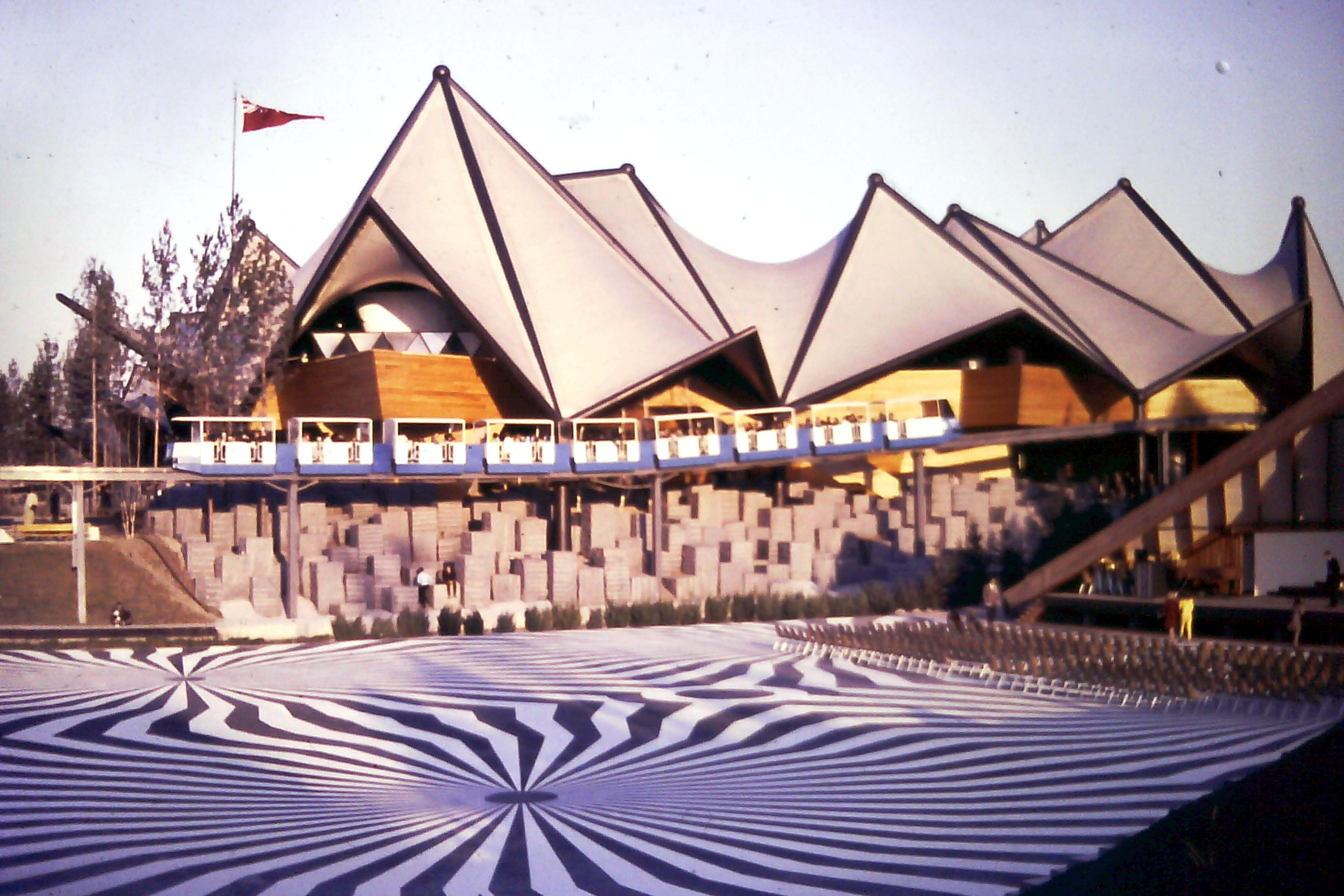 Ontario Pavilion at Expo 67, seen from The Place of the Canada Pavilion. One can see also the Minirail. This picture was taken by my father at Expo 67 (I was -7 years old at the time). I scanned these pictures from slides.